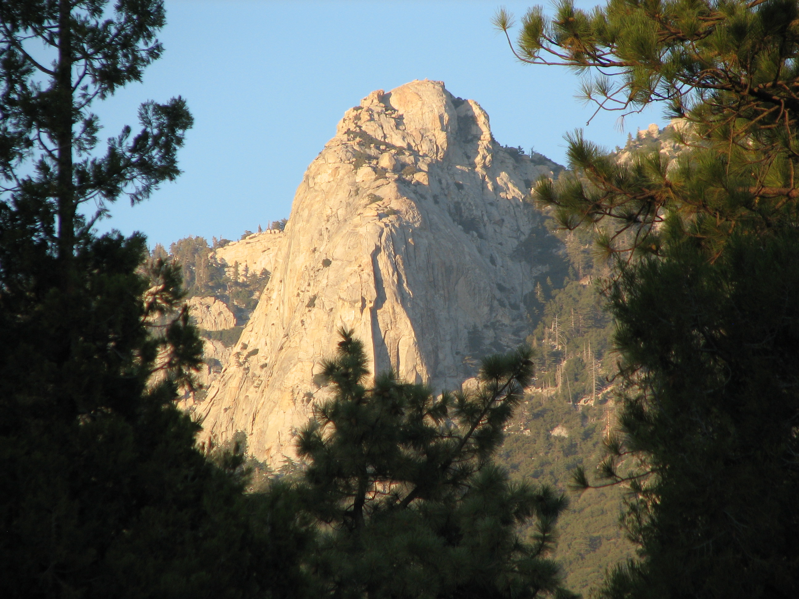 Tahquitz Rock a.k.a. Lily Rock (from Idyllwild)